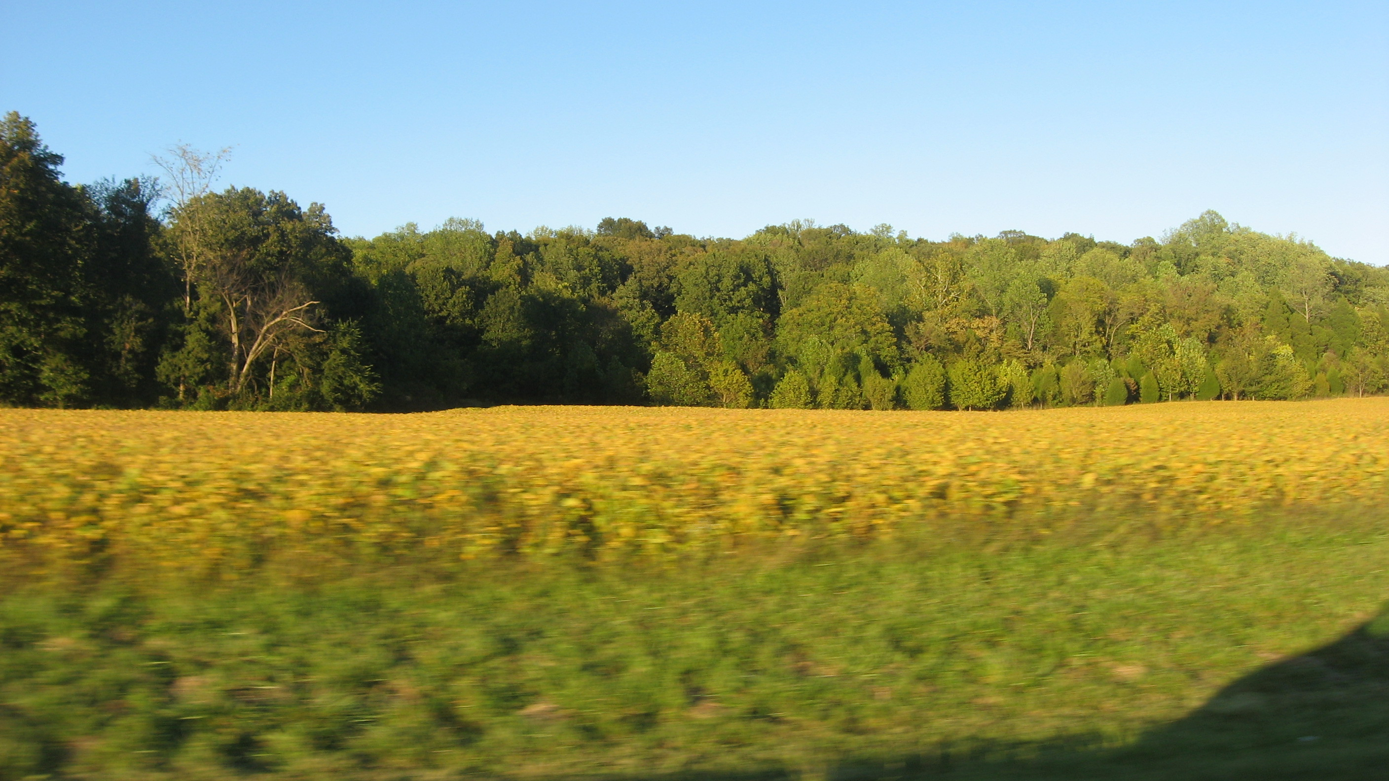 A field on the northern side of U.S. Route 150 northwest of Hardinsburg in Madison Township, Washington County, Indiana, United States.